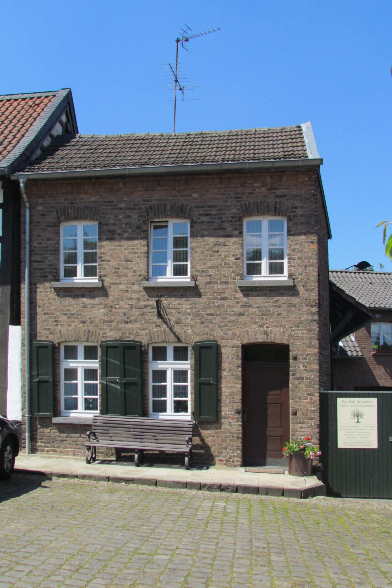 This is a photograph of an architectural monument.It is on the list of cultural monuments of Korschenbroich